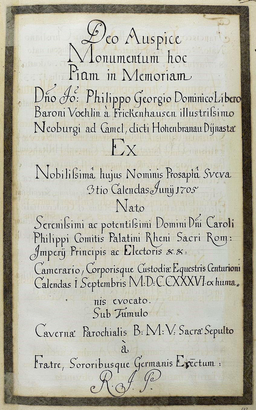 Johann Philipp Georg Dominikus Vöhlin von Frickenhausen (+ 1736), Epitaphinschrift in Mannheim, St. Sebastian (nicht mehr existent)